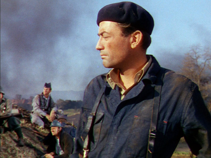 Screenshot of Gregory Peck from the film The Snows of Kilimanjaro